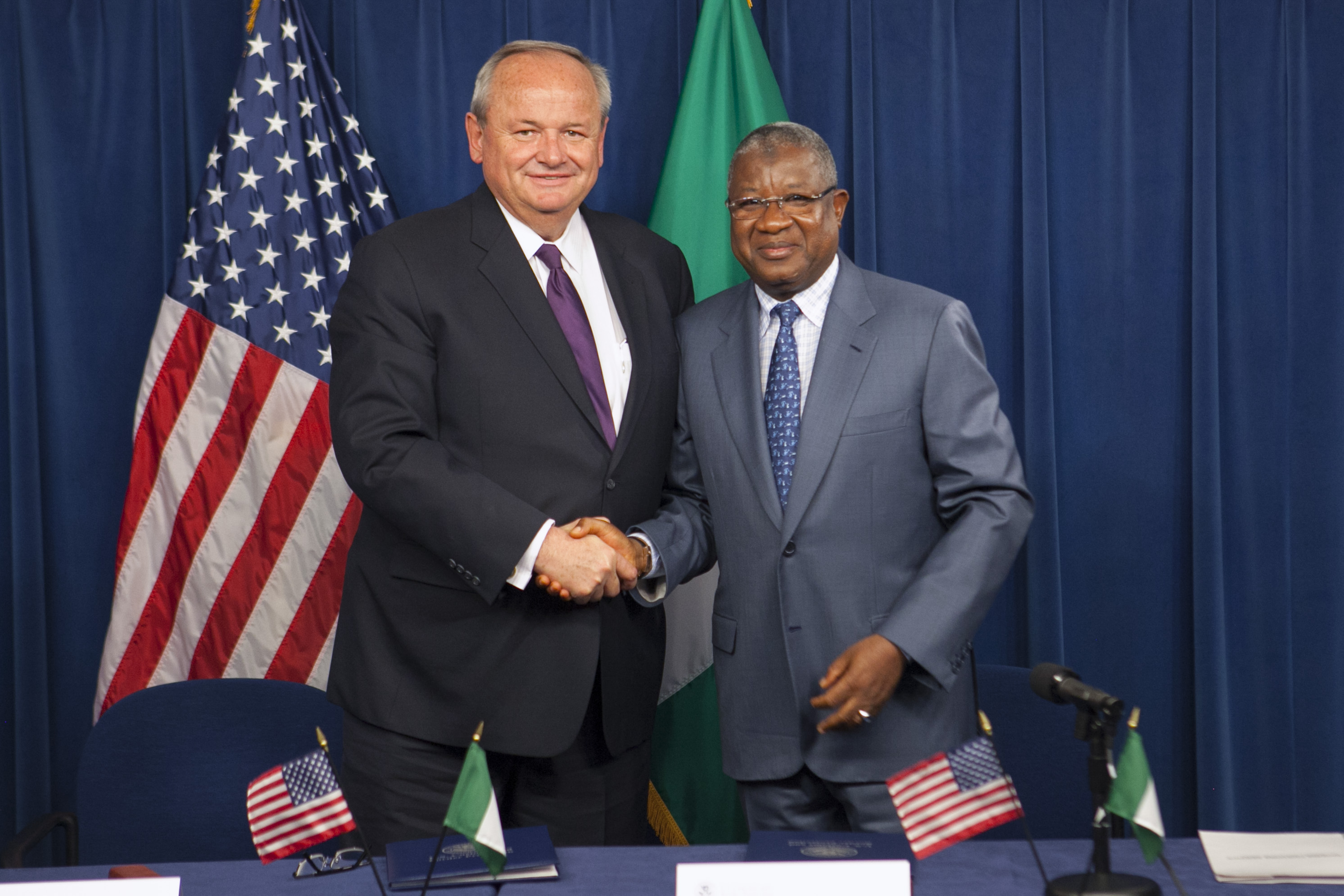 Customs and Border Protection Acting Commissioner Thomas Winkowski and Director of Nigerian Customs Abdullahi Dikko Inde, sign a Customs Mutual Assistance Agreement between the two countries.